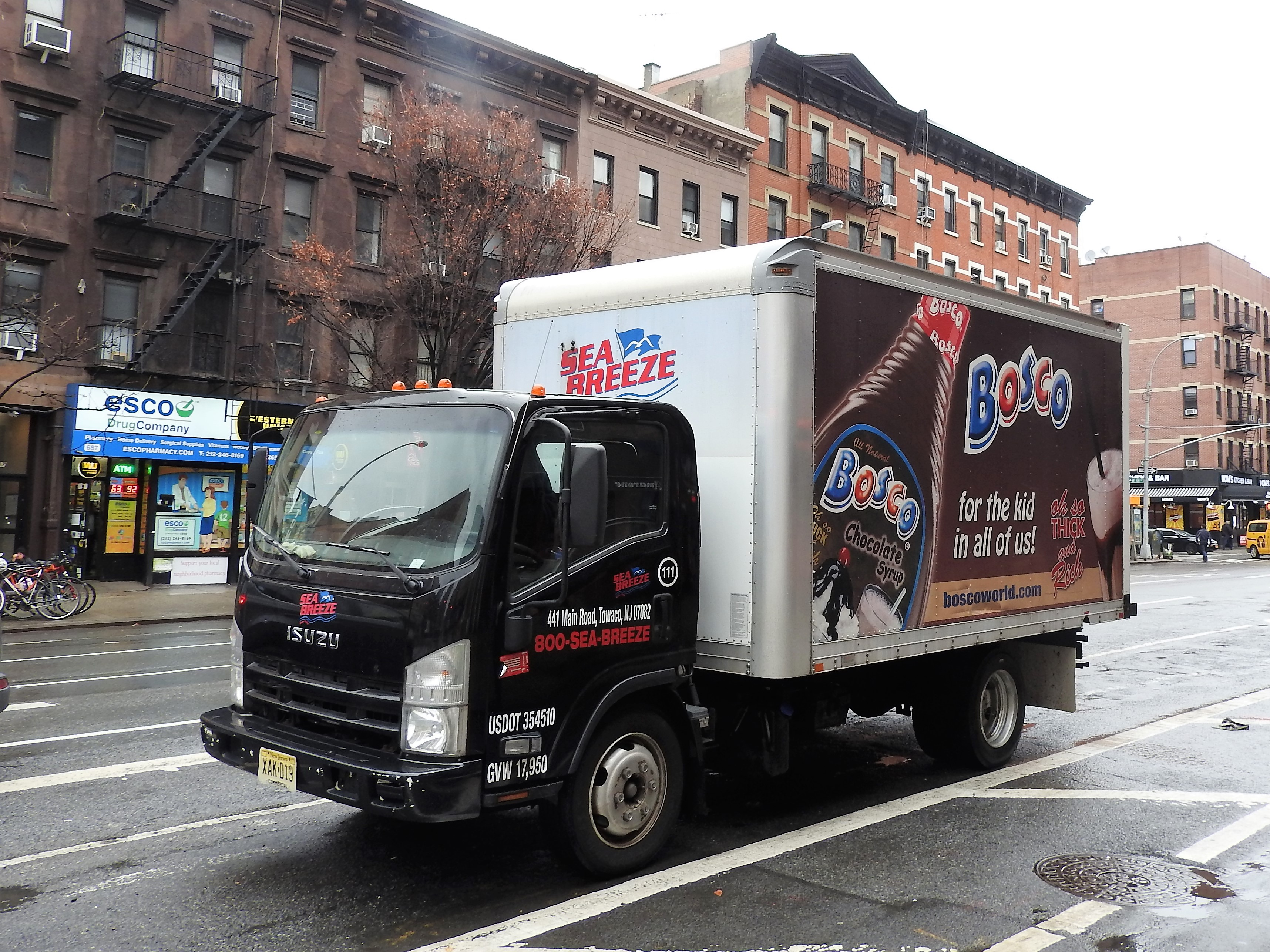 Looking north from 47th St at Bosco truck parked on 9th Avenue